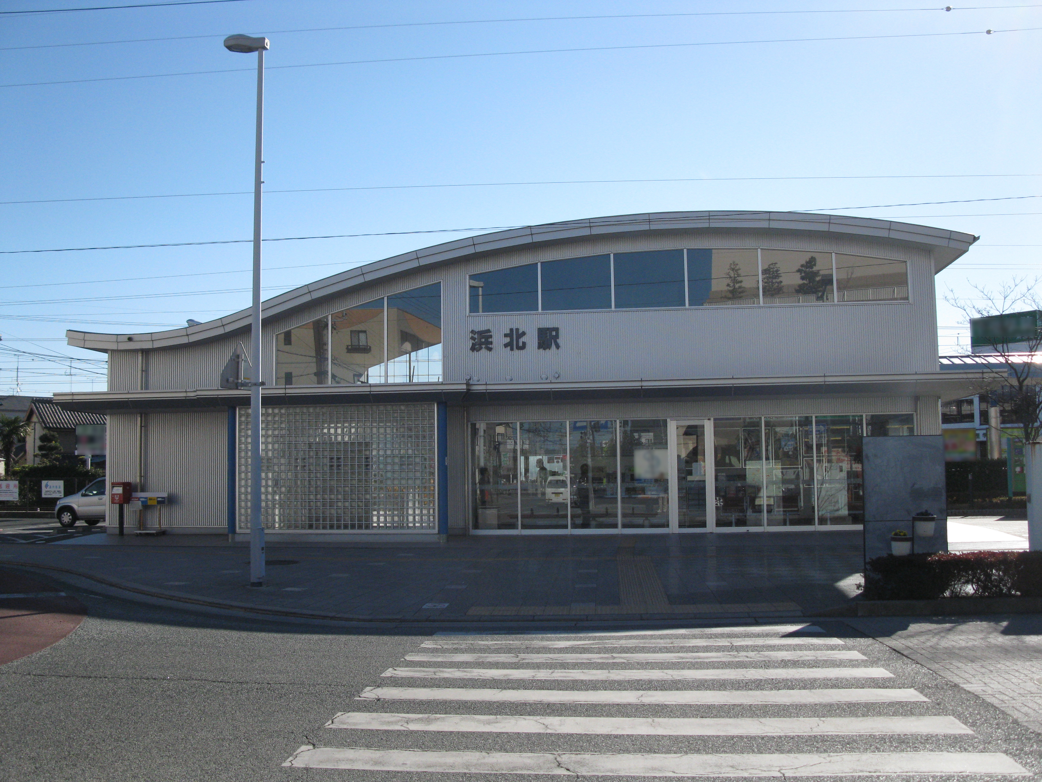 Hamakita Station building (Enshū Railway Line)